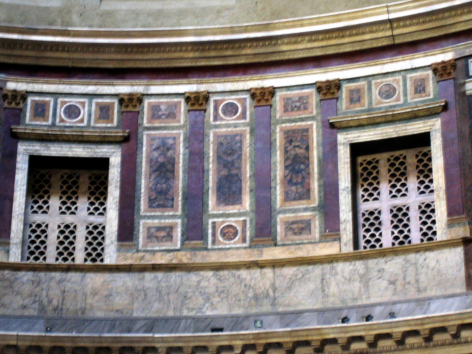 Pantheon, Interior register, restored.pantheon interior upper register restored